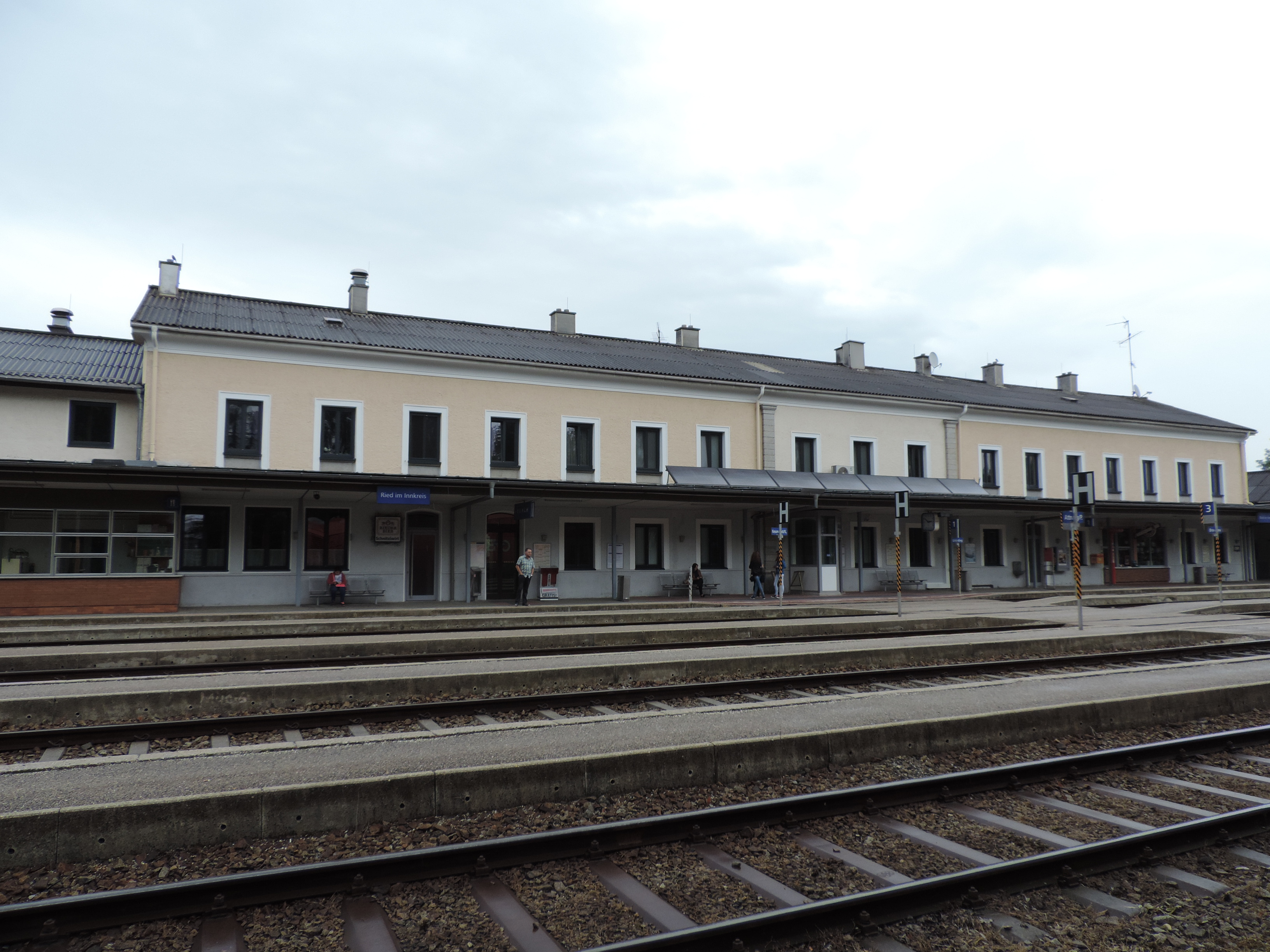 train station Ried im Innkreis in Upper Austria